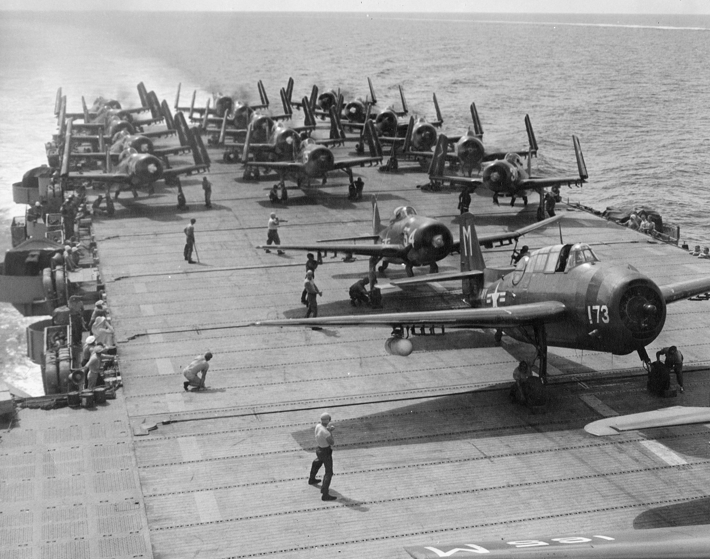 A U.S. Naval Reserve Grumman TBM-3E Avenger assigned the Naval Air Reserve Training Unit at NAS Memphis, Tennessee (USA), and 17 Grumman F8F-1 Bearcats assigned to the Naval Air Reserve Training Unit at NAS Glenview, Illinois, pictured during flight operations aboard the light aircraft carrier USS Monterey (CVL-26), probably in the Gulf of Mexico, circa 1951. Note the orange fuselage band on the Avengers, characterisitic of markings carried on U.S. Naval Reserve aircraft.